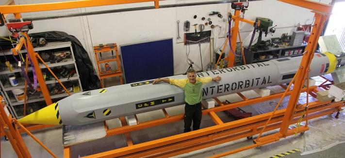 Olav Zipser with InterOrbital Systems suborbital SR-145 sounding rocket - for the FreeFly Astronaut Project